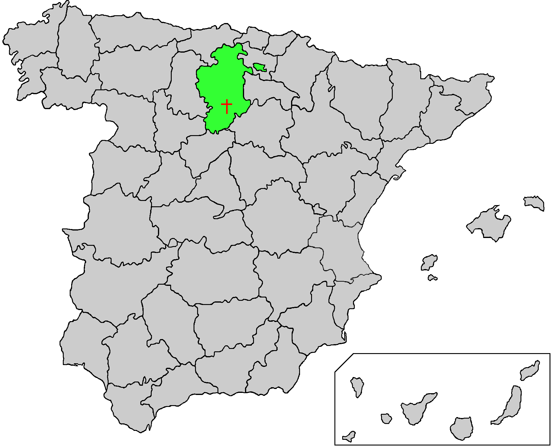 Map of Spain with the province of Burgos highlighted showing the location of the monastery of Santo Domingo de Silos. Created by Mark Somoza.